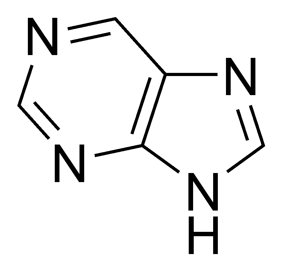 Chemical structure of purine, a simple aromatic ring